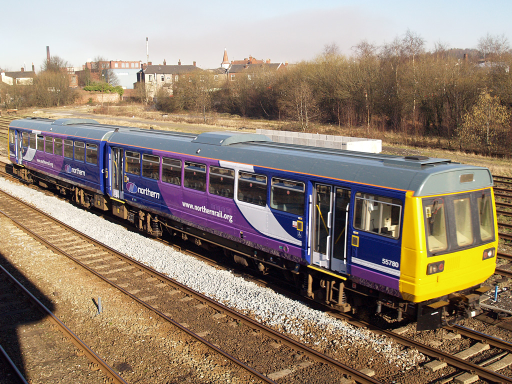 Northern Rail (leased from Angel Trains) former British Railways Associated Rail Technologies (body built by Leyland Bus Limited, under frame built by British Rail Engineering Limited) class 142 ‘Pacer’ two car diesel-hydraulic multiple unit number 142084 (55780 and 55734) of Heaton T&RSMD passes Castleton East Junction on the Up Main line forming the 14:03 (Daily) Rochdale to Kirkby (2F17). Wednesday 13th February 2008